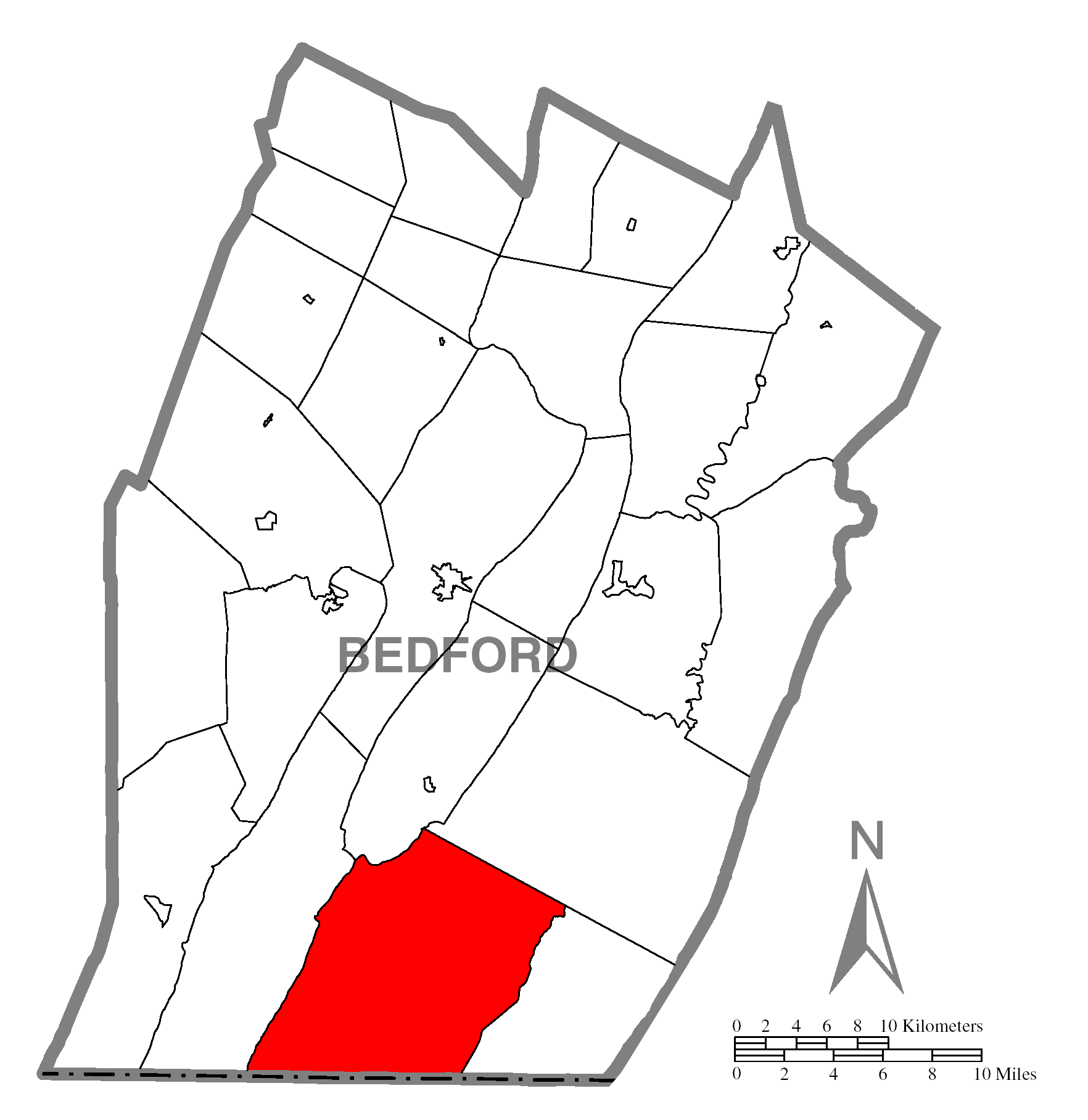 A map of Bedford County showing Southampton Township, Pennsylvania (alternate) highlighted on the map.